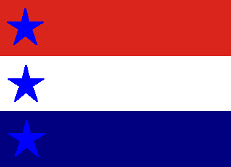 XXI Corps, 3rd Division Badge